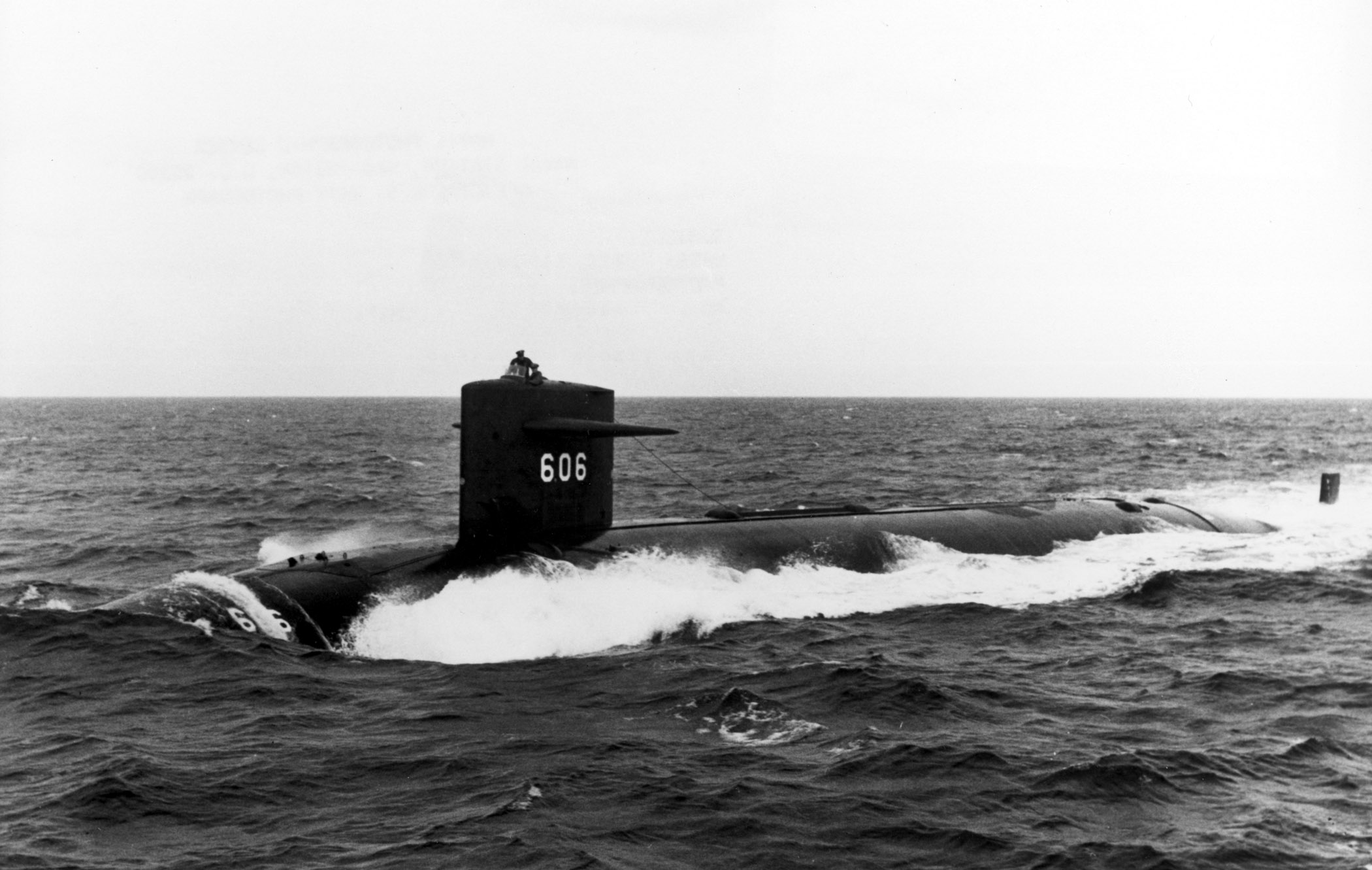 The USS Tinosa.